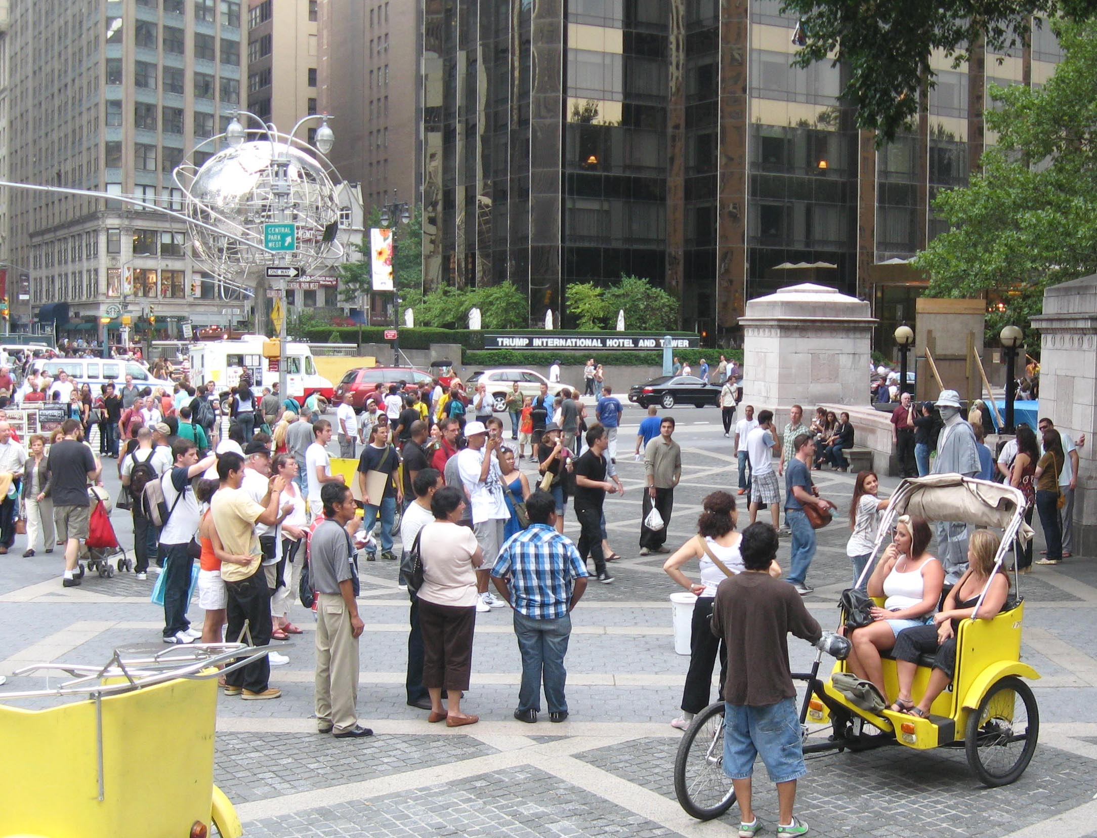 Looking northwest at tourists gathering round a busker (in gray) at Merchants Gate of Central Park.